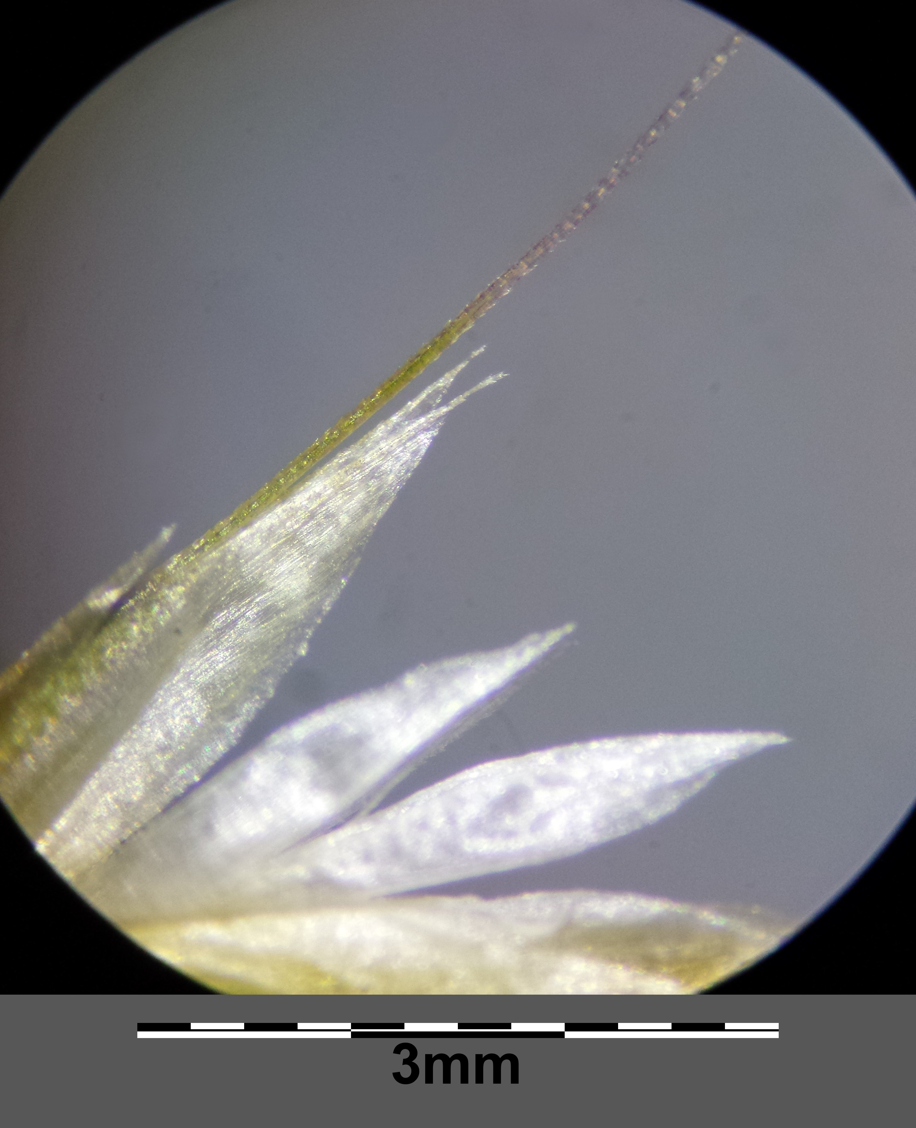 Bicuspidate lemma Taxonym: Trisetum flavescens subsp. flavescens ss Fischer et al. EfÖLS 2008 ISBN 978-3-85474-187-9 Location: "In der Hölle" near Wetzleinsdorf, district Korneuburg, Lower Austria - ca. 280 m a.s.l. Habitat: fallow land